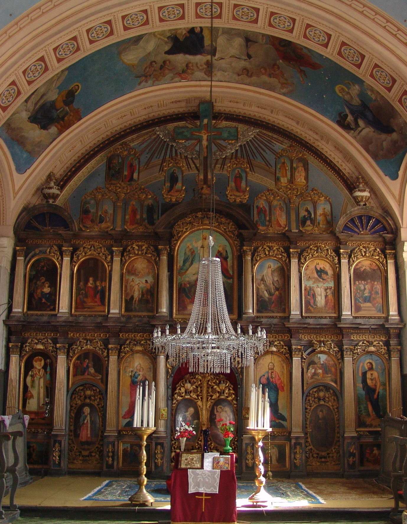 Serbian Orthodox church of Transfiguration of the Lord in Elemir - iconostasis